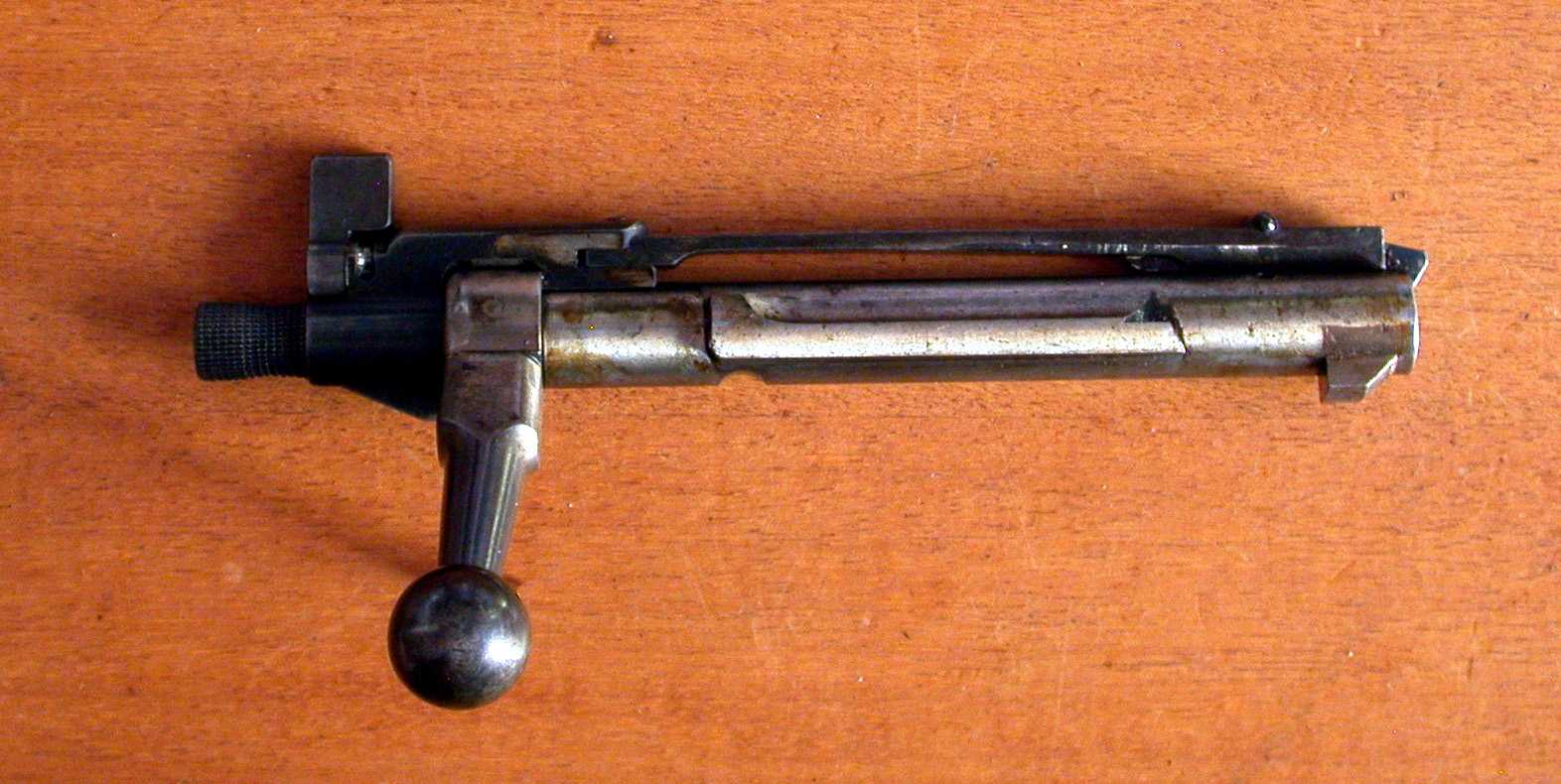 U.S. Model 1898 Krag rifle, bolt